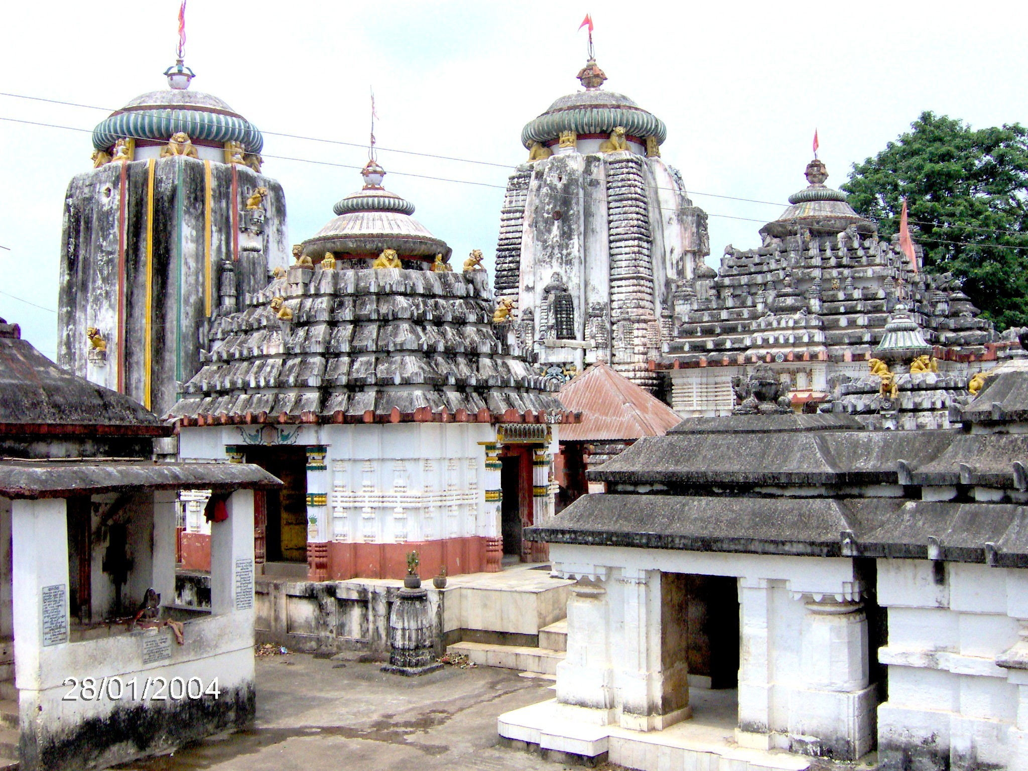 Ancient Kapileswar temple. Situated at Bhuaneswar, Odissa, India. Build by emperor Kapilendra dev in 1442 AD.